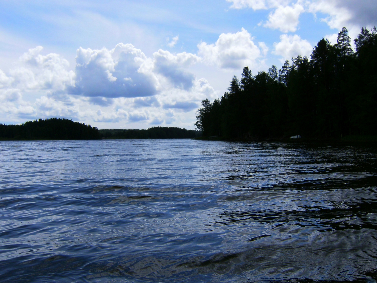 The lake "Poikkipuoliainen" in Vihti, Finland; view to south